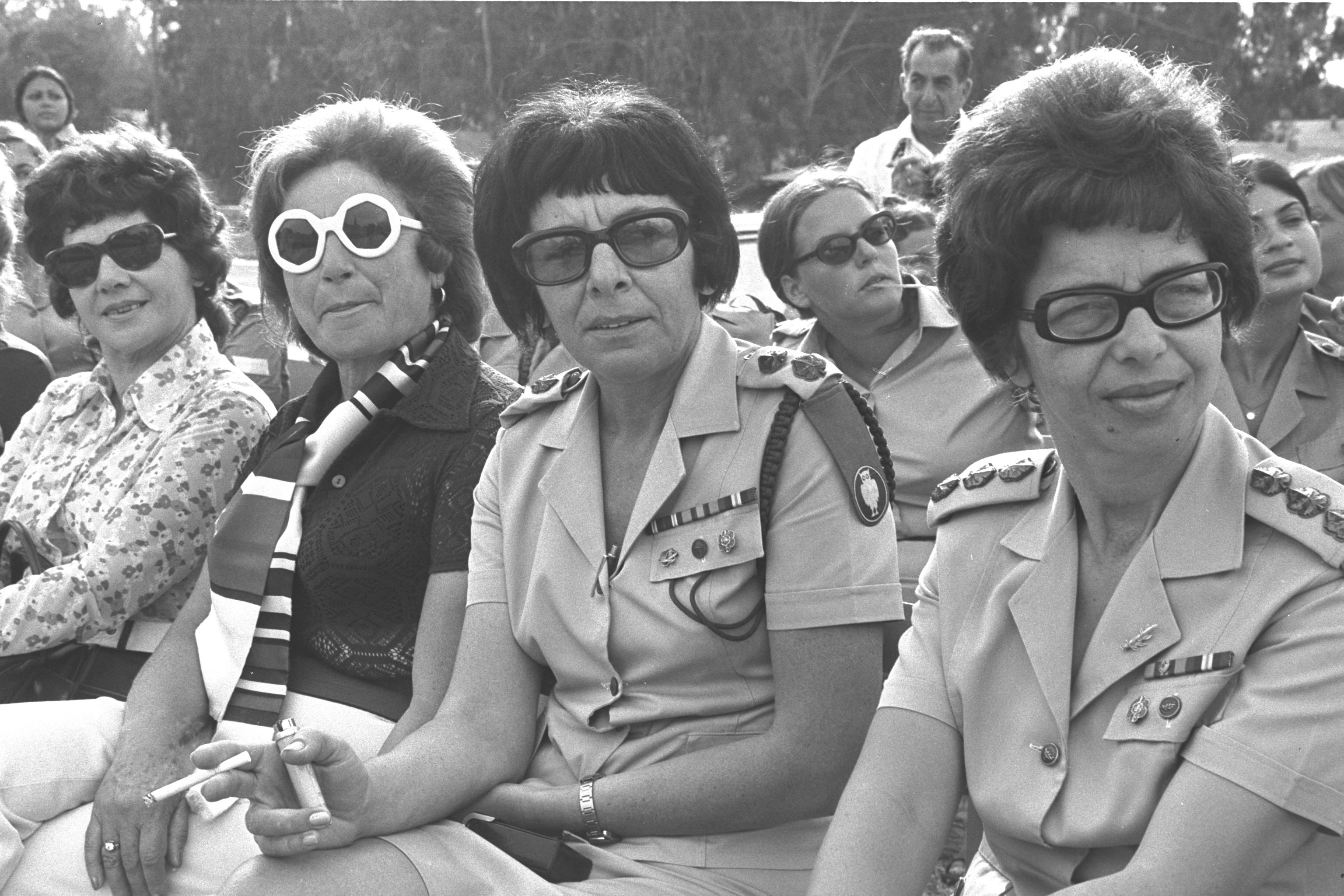 O.C. Women's Corps Major General Dvora Tomer and O.C. Chen Training Base Sgan Aluf Zvia Shneider sit in the front row during the Shekem Fashion Show at an Army base.